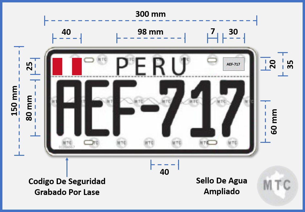 Peru license plate dimensions 2010.